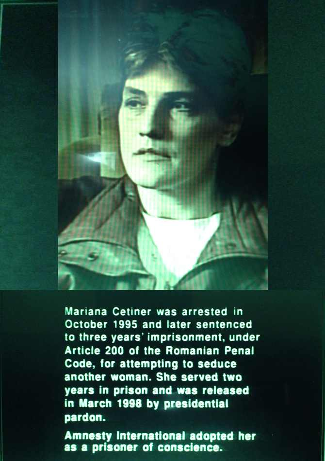 Mariana Cetiner, possibly the last person imprisoned in Romania for fer sexual orientation